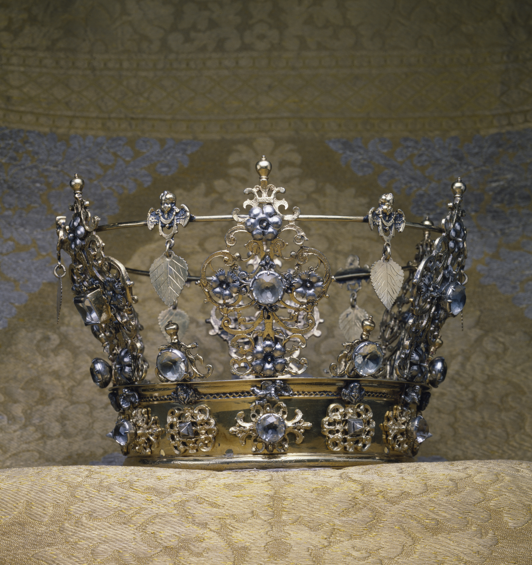 Although crowns are customarily associated with royalty, wedding crowns in Scandinavia were worn by brides of all social strata. They were owned by the bride's parish and loaned for the occasaion. Wedding crowns were richly decorated with emblems of conjugal love: this example includes carnations, associated with enduring marriage because their fragrance outlasts their blossoms, dangling linden leaves, which represent fertility in Nordic literature, and angels, Christian figures that allude to the eternal and spiritual qualities of marriage. The crown itself resembles that worn by Mary, Queen of Heaven.